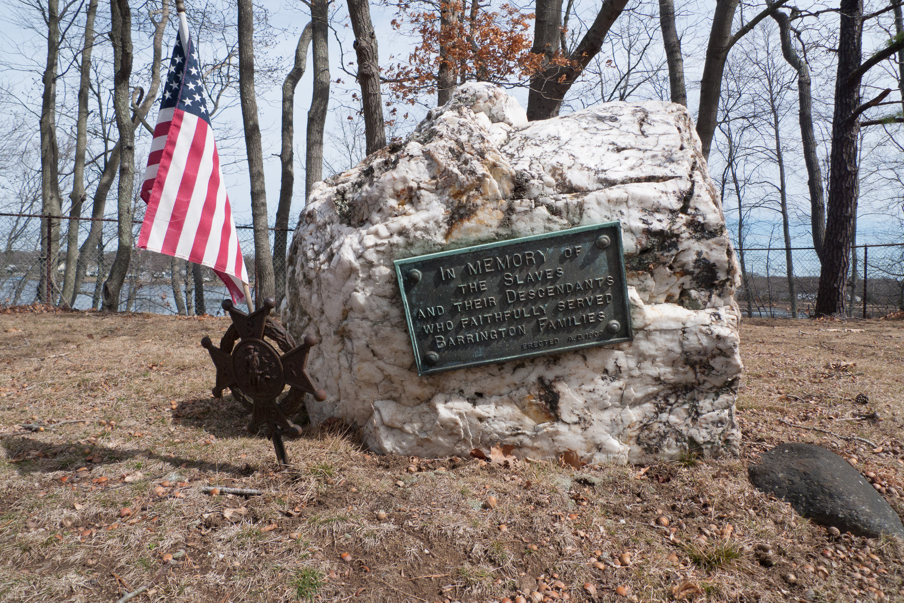 Slave memorial at Princes Hill Burial Ground Barrington, Rhode Island: In memory of the Slaves and their Descendants who faithfully served Barrington Families.